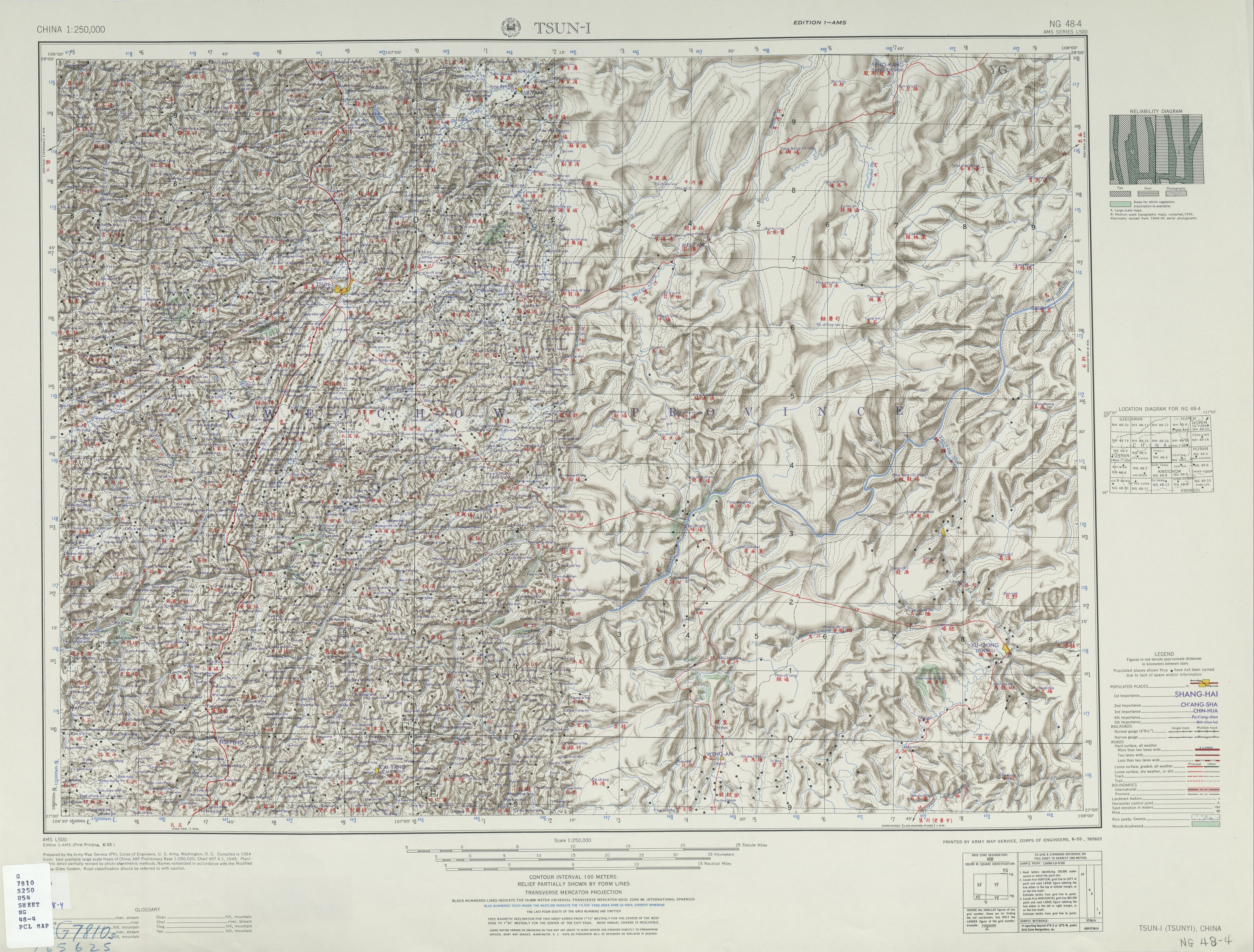 China AMS Topographic Maps